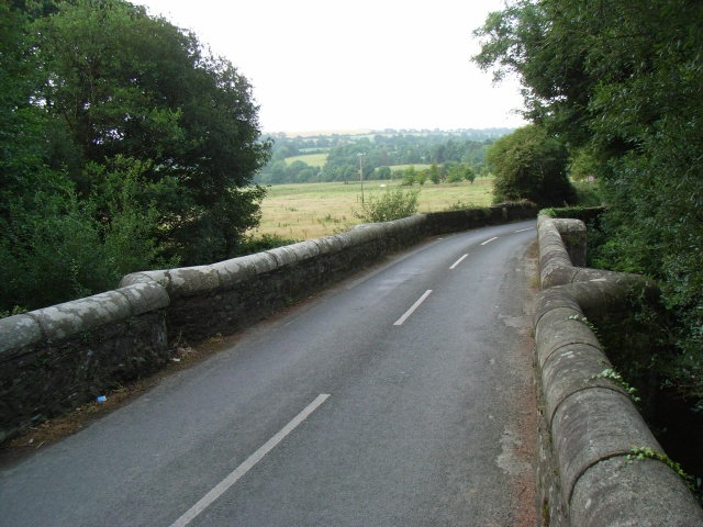 Nunscross Bridge over the River Vartry on the R763 road from Ashford to Annamoe in County Wicklow, Ireland. You may also see it spelt "Nun's Cross" or "Nuns Cross".